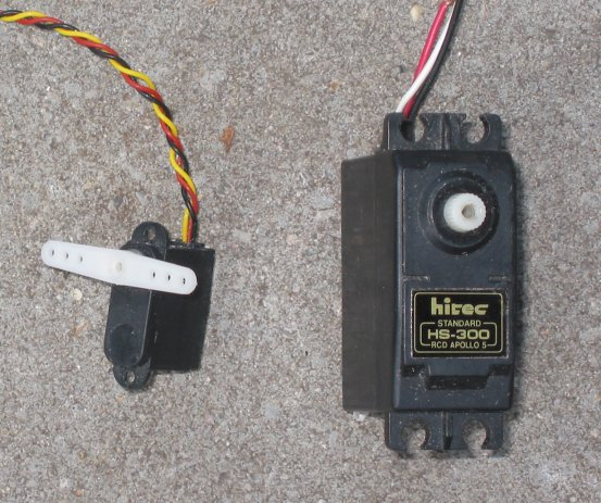 Photo of servos from a model remote-controlled aeroplane